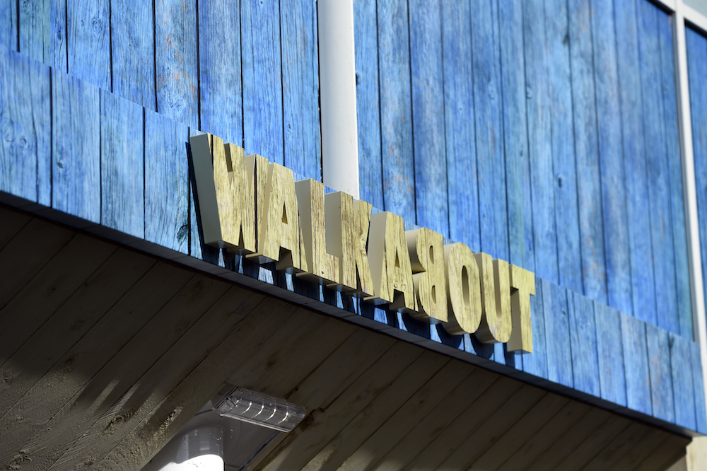 Walkabout Chelmsford sign